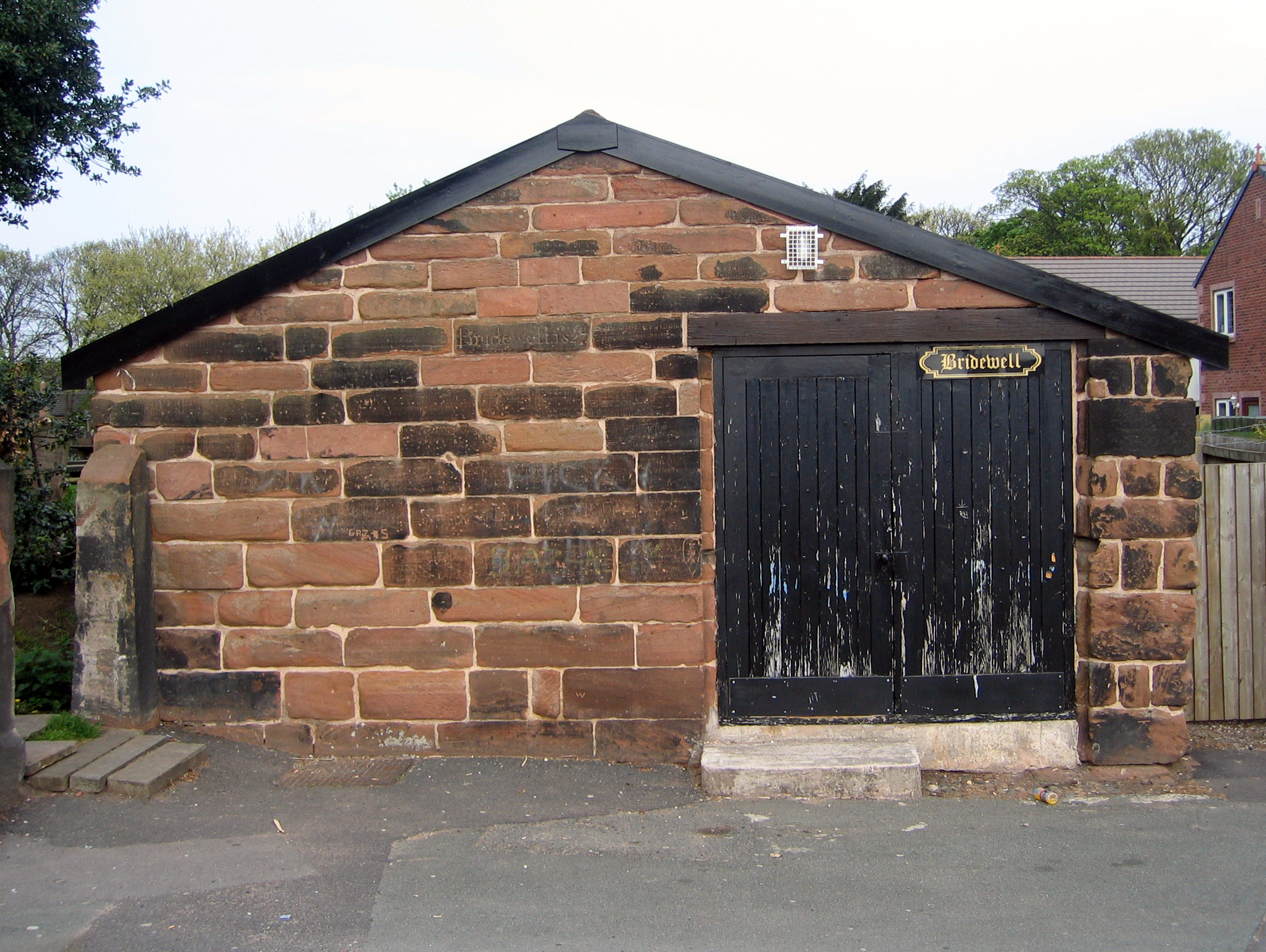 Bridewell adjacent to St Luke's Church, Farnworth, Widnes